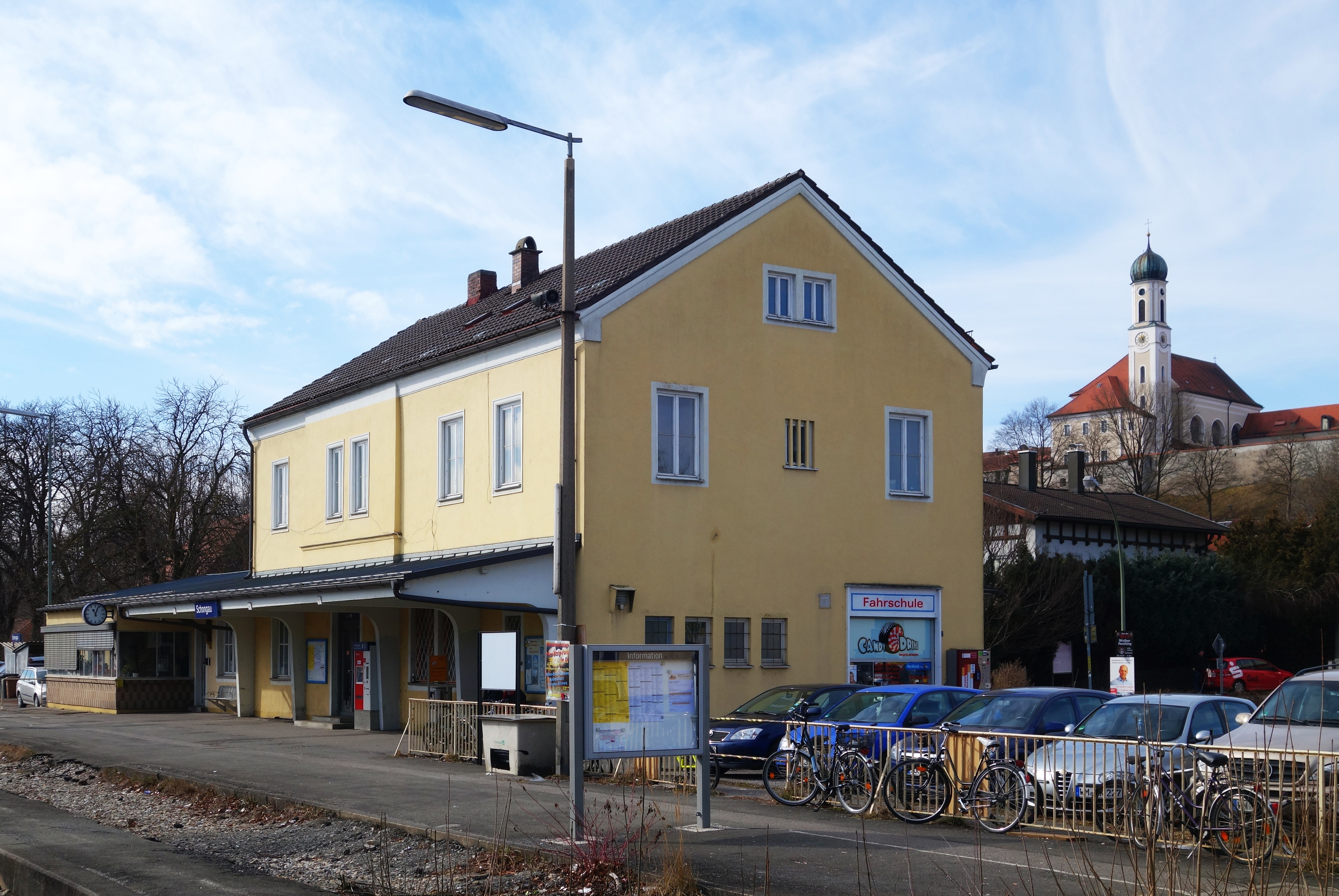 Schongau (Bavaria, Germany): railway station building. On the right hand in the background, the wall of the historic city and the "Heilig-Geist-Kirche" (Church of the Holy Spirit).